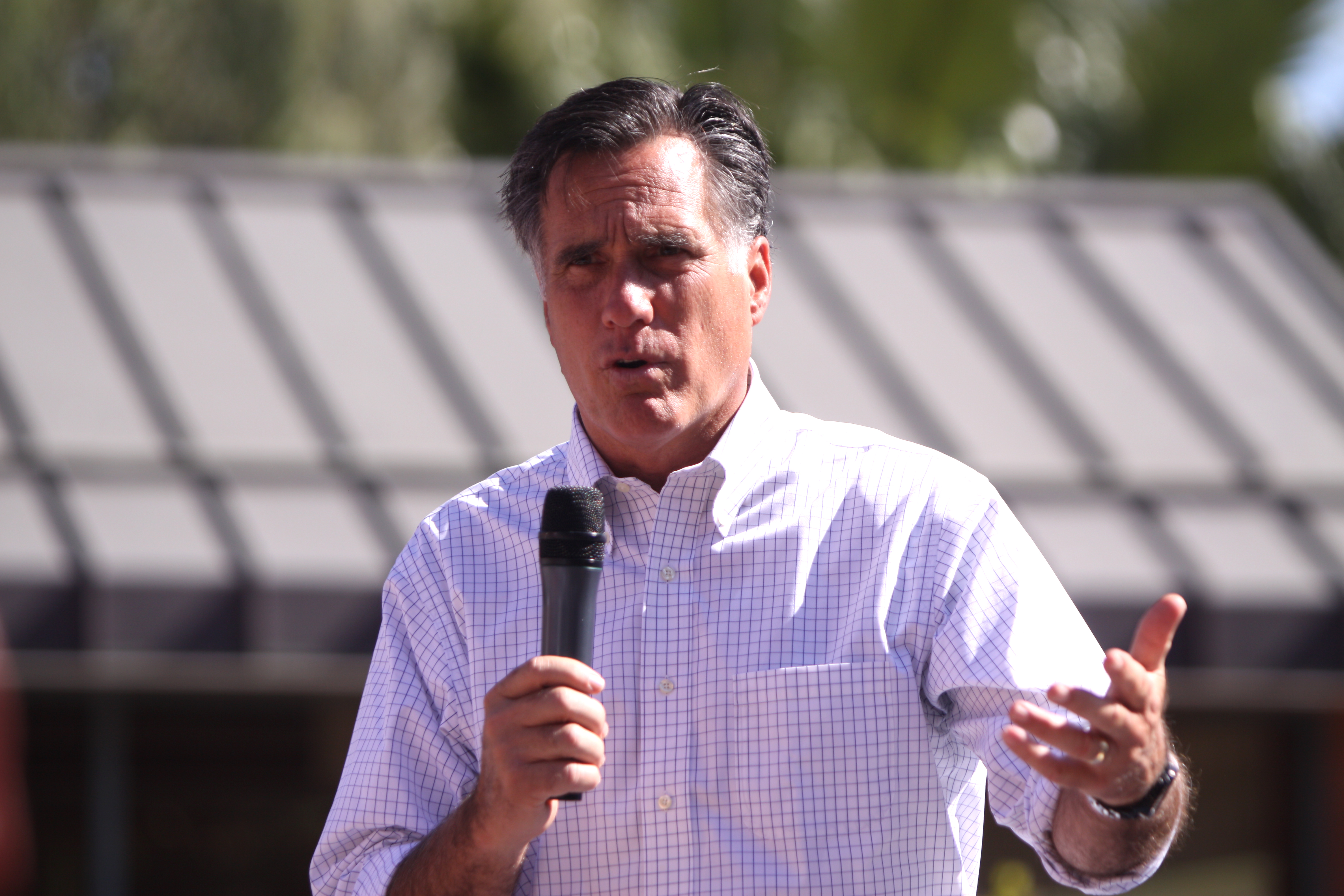 Mitt Romney speaks to a crowd in Tempe, AZ.